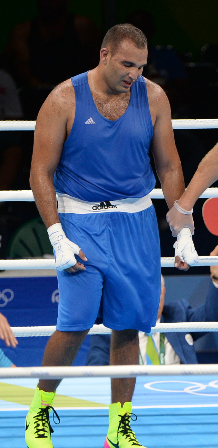 Boxing at the 2016 Summer Olympics, Majidov vs Arjaoui